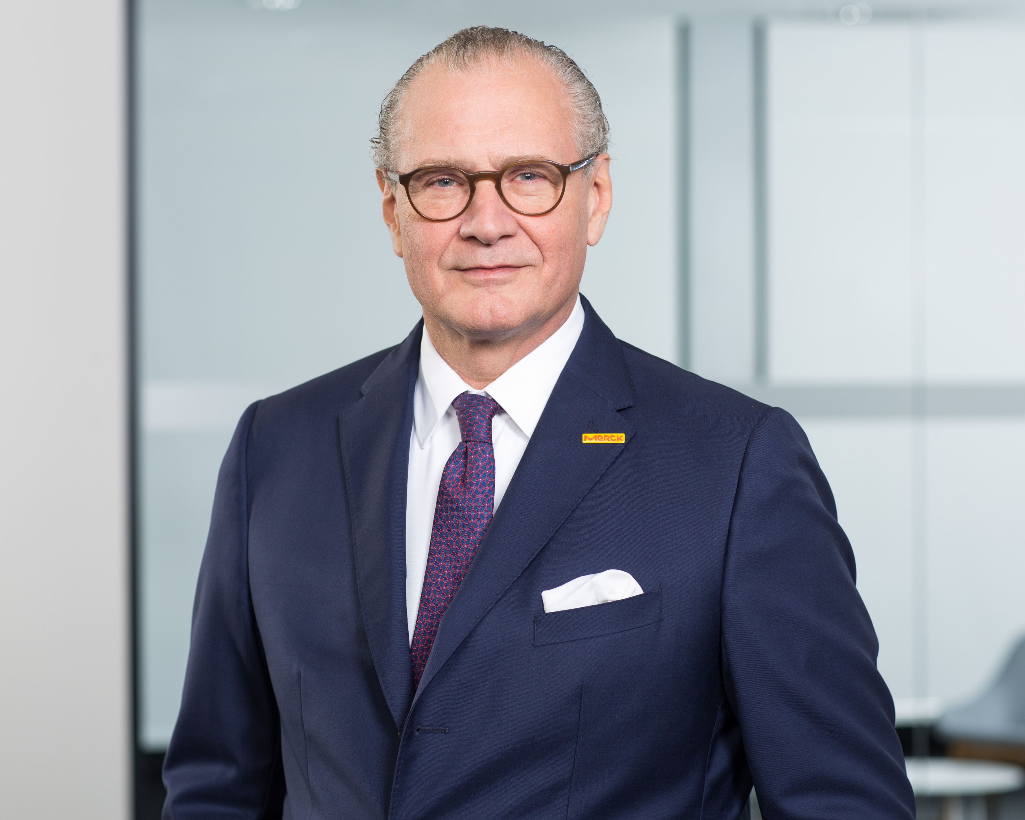 Stefan Oschmann Depicted person: Stefan Oschmann – CEO of Merck